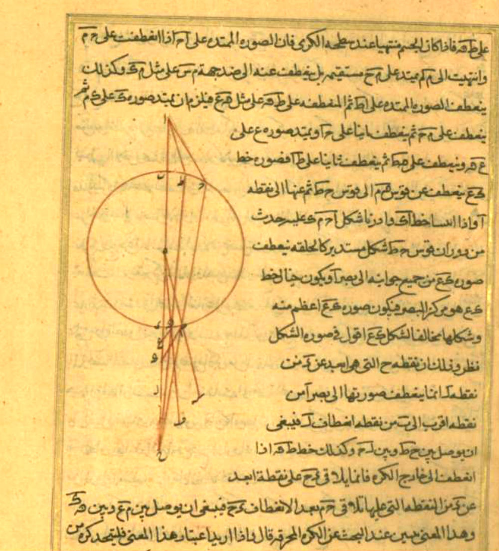 KITAB TANQIH AL-MANAZIR by Kamal al-Din al-Hasan ibn Ali ibn al-Hasan al-Farisi (1267-1318), Arabic language on paper.